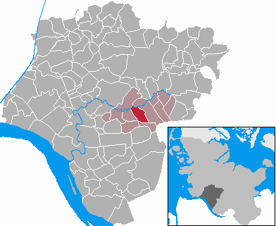 This map shows the area of the municipality Kronsmoor in the Kreis (district) Steinburg, Schleswig-Holstein, Germany.